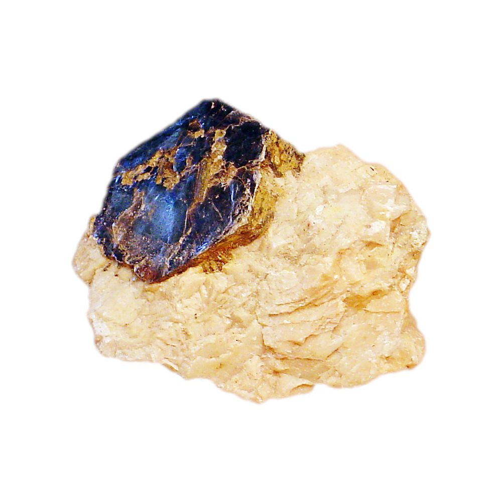 These mineral images are free to use how you wish.